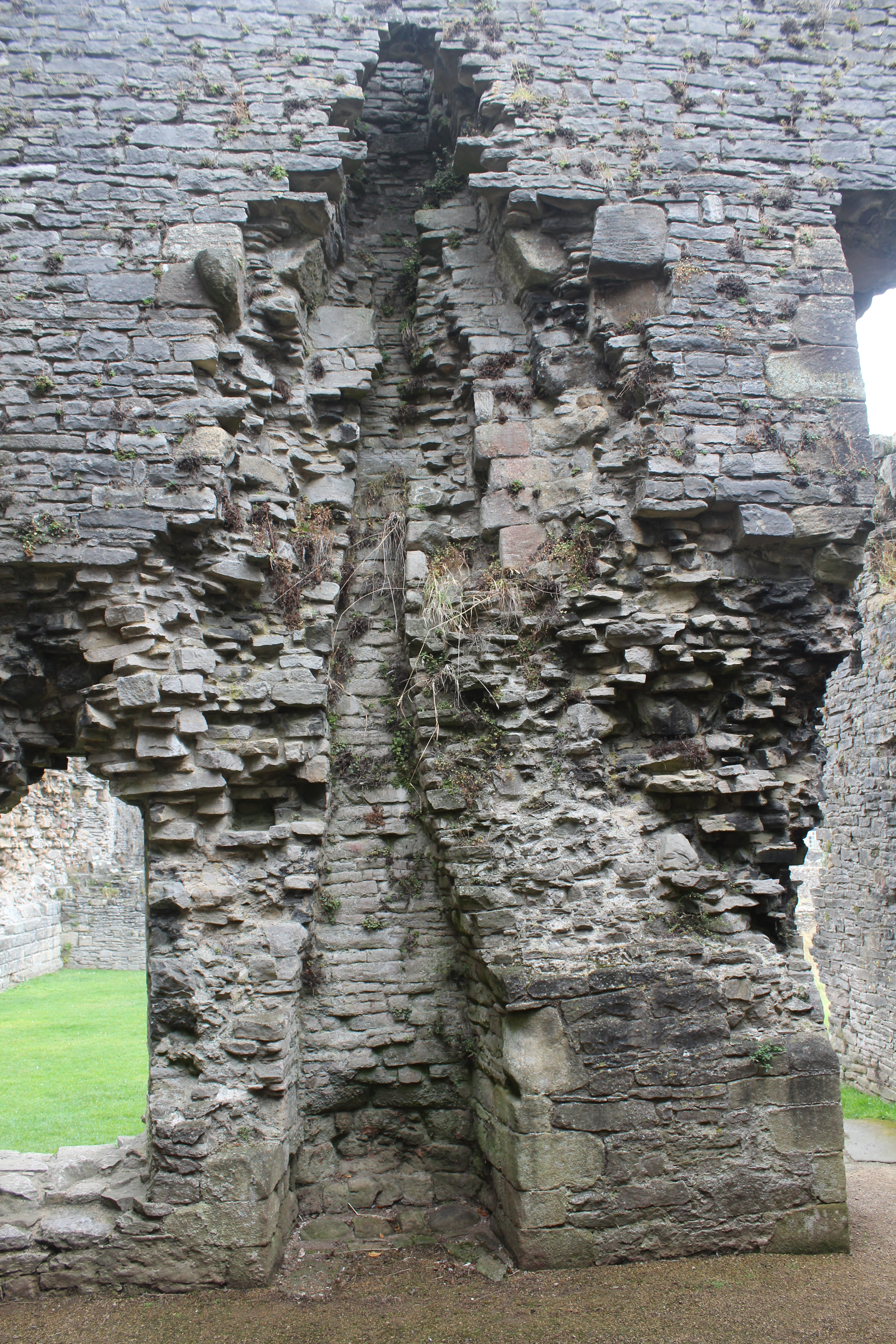 Ruined fireplace in the South-East tower of Middleham Castle showing the shape of the chimney flue.